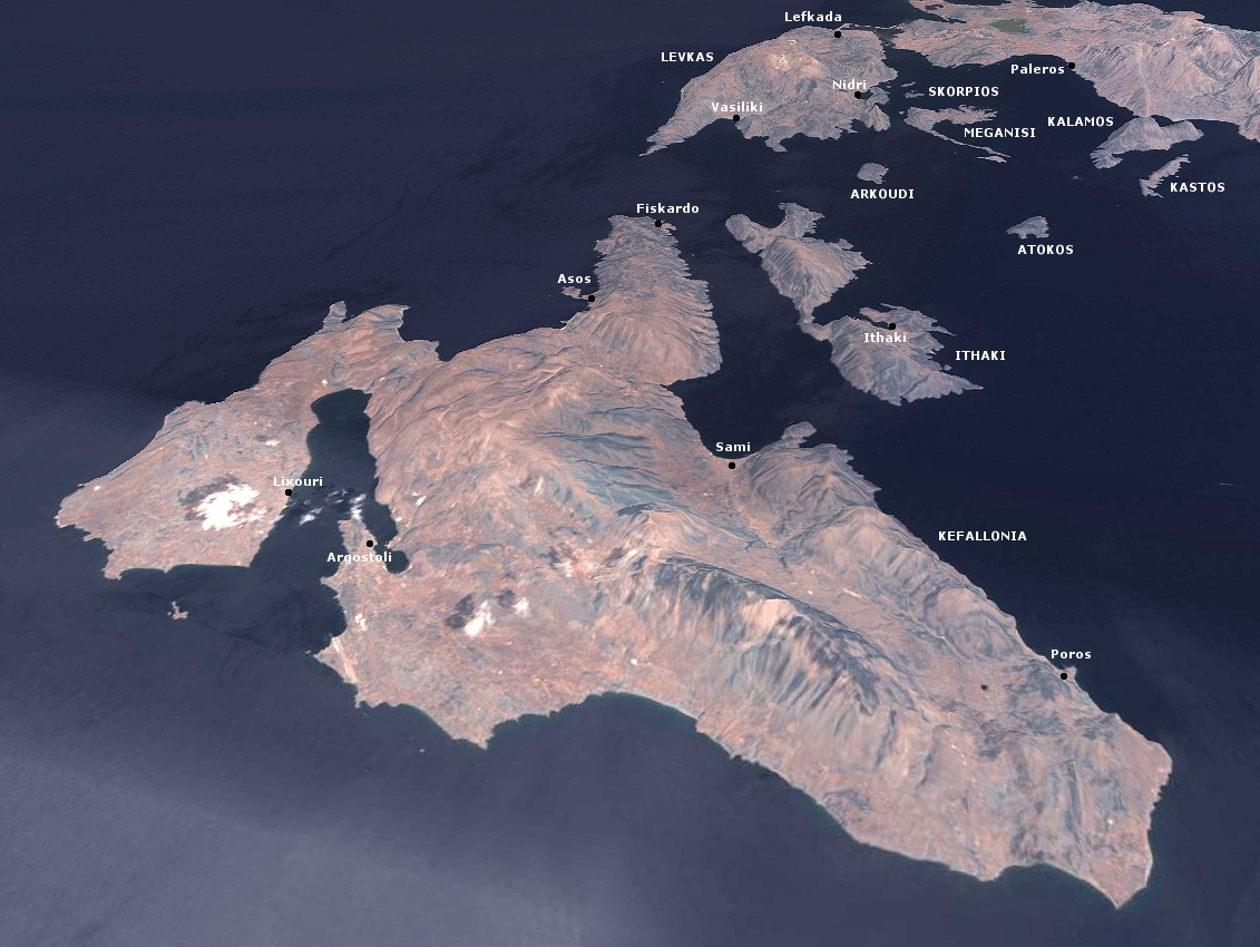 The Greek islands Kephalonia and Ithaka, produced with NASA World Wind